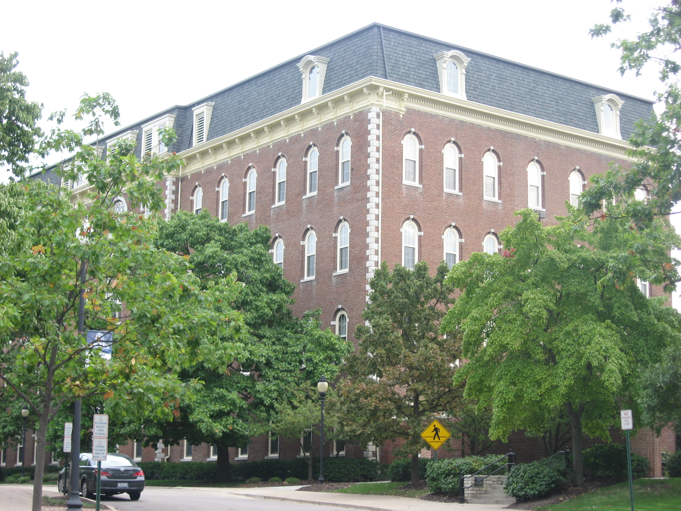 Western side and southern end of St. Mary's Hall, located on University Circle at the University of Dayton in Dayton, Ohio, United States. Built in 1870, it is listed on the National Register of Historic Places.